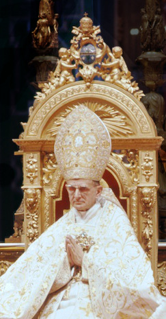 Remix work of Creative Commons Attribution-Share Alike 3.0 file File:Second Vatican Council by Lothar Wolleh 001.jpg edited for close up of Pope Paul VI.